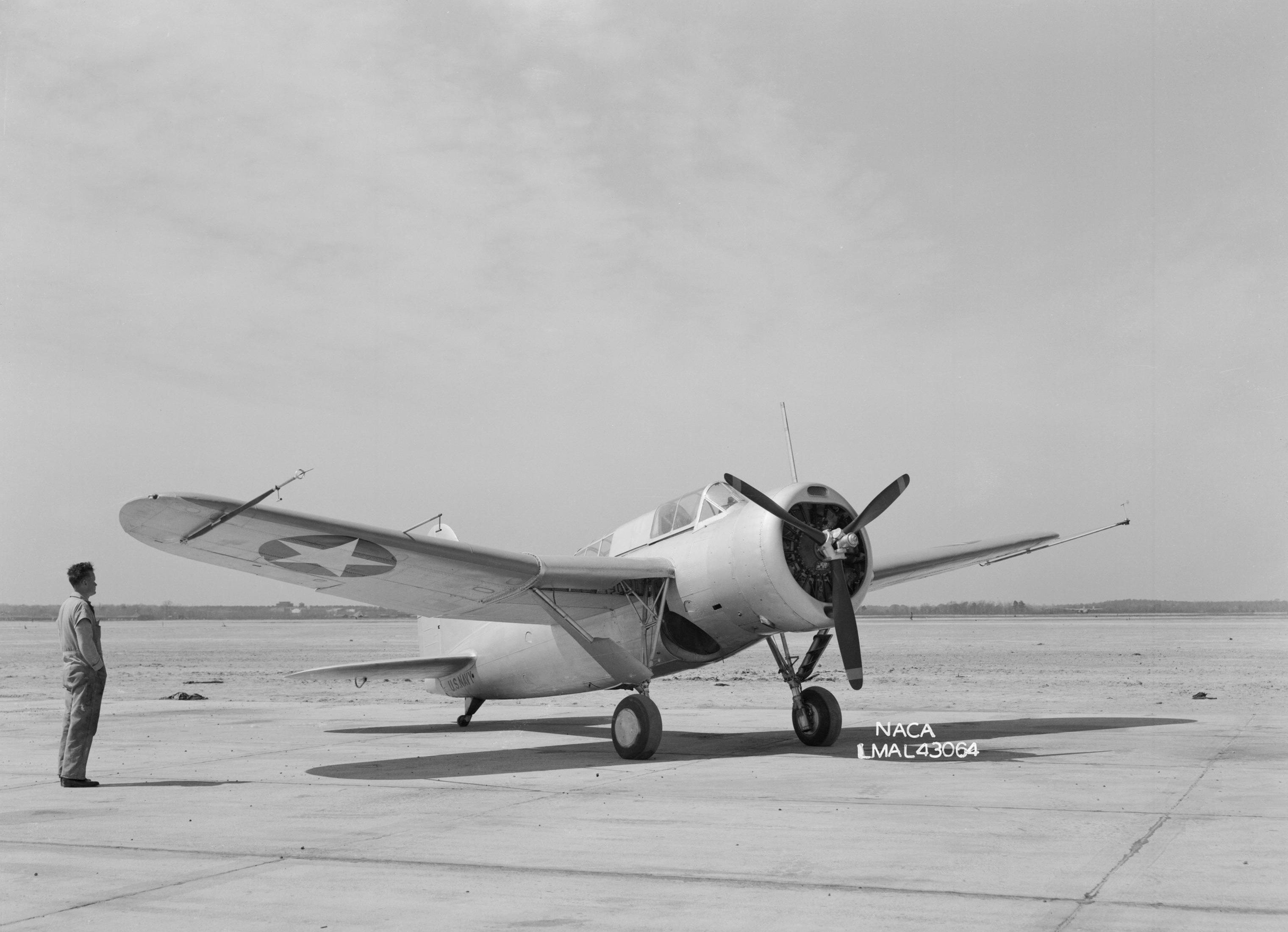 The Brewster XSBA-1 at the NACA Langley Research Center, Virginia (USA), 23 March 1945. The prototype Brewster XSBA-1 scout plane flew at Langley from 1939 until 1941 and returned a year later with a new wing, one that had increased dihedral. It flew it this form until leaving the NACA in September 1945.